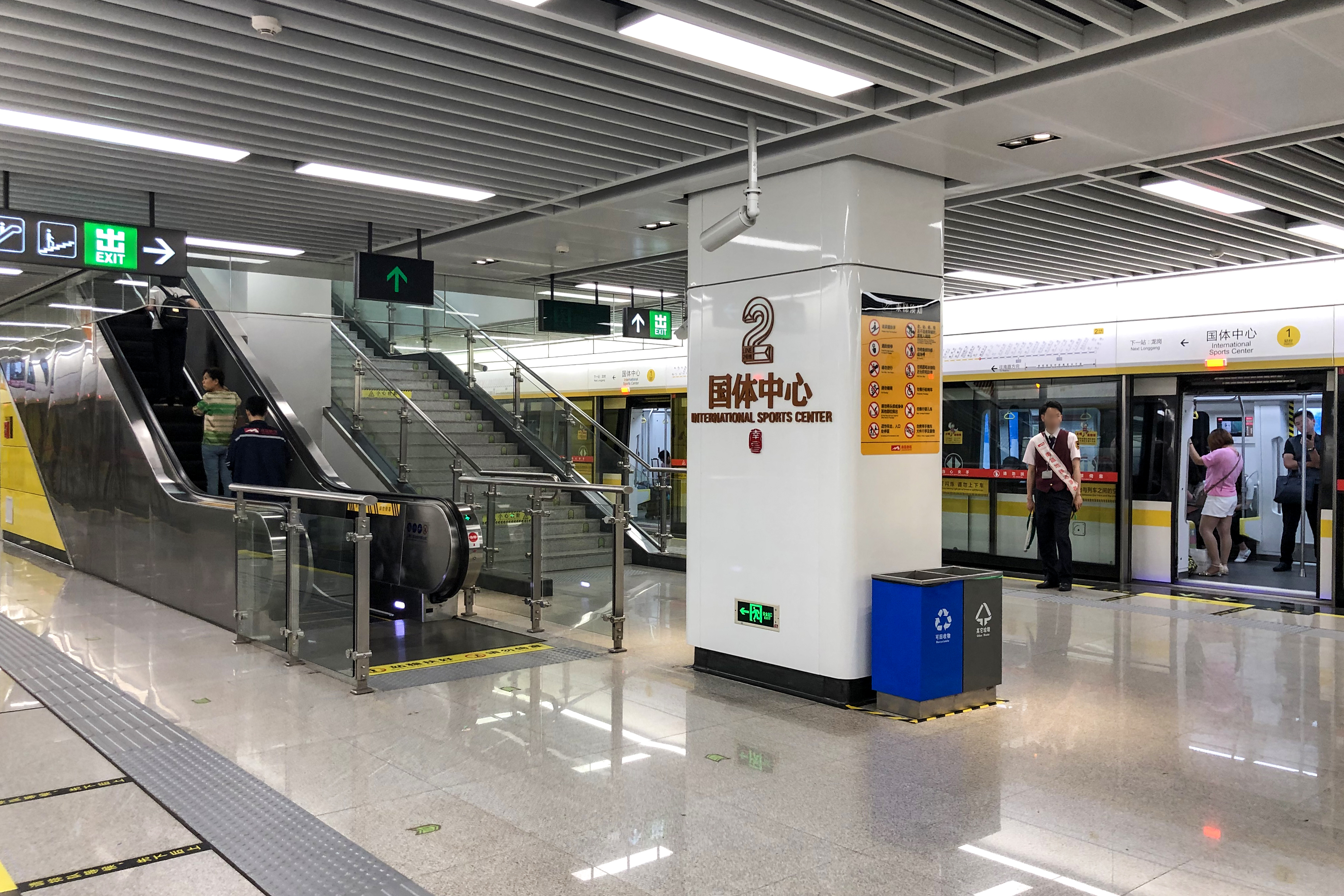 Nanchang International Sports Center in Xinjian District.